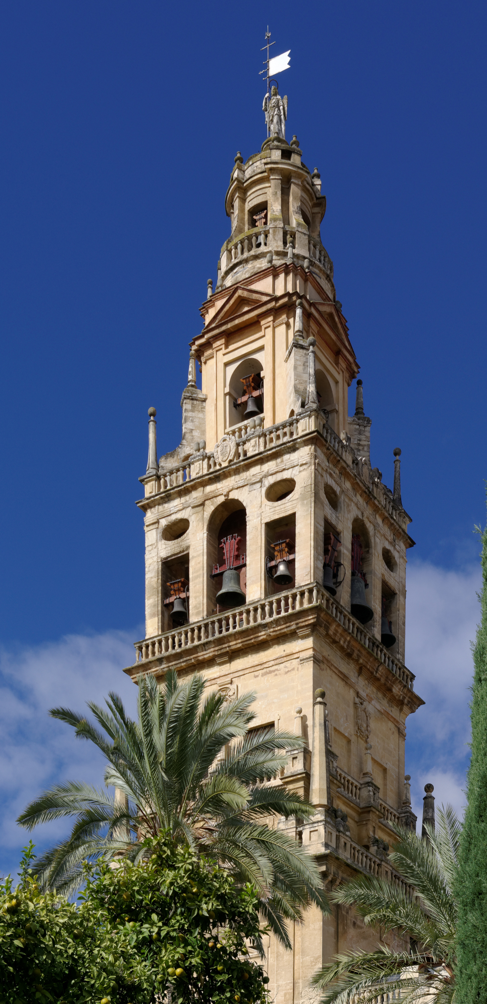 Spain, Cordoba, Tower of the Mosque-Cathedral